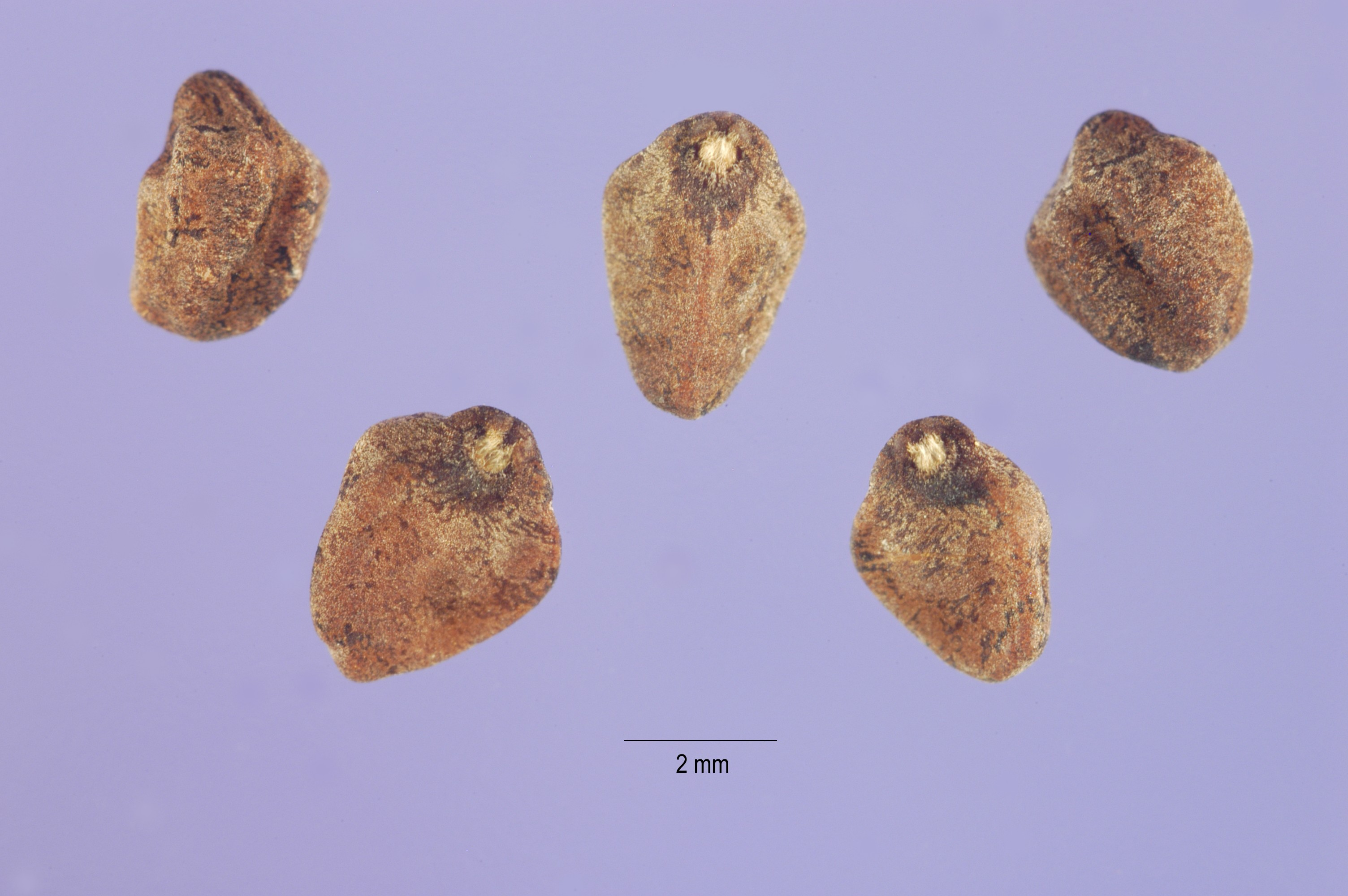 Ipomoea violacea seeds. Provided by ARS Systematic Botany and Mycology Laboratory. Italy, Sicily